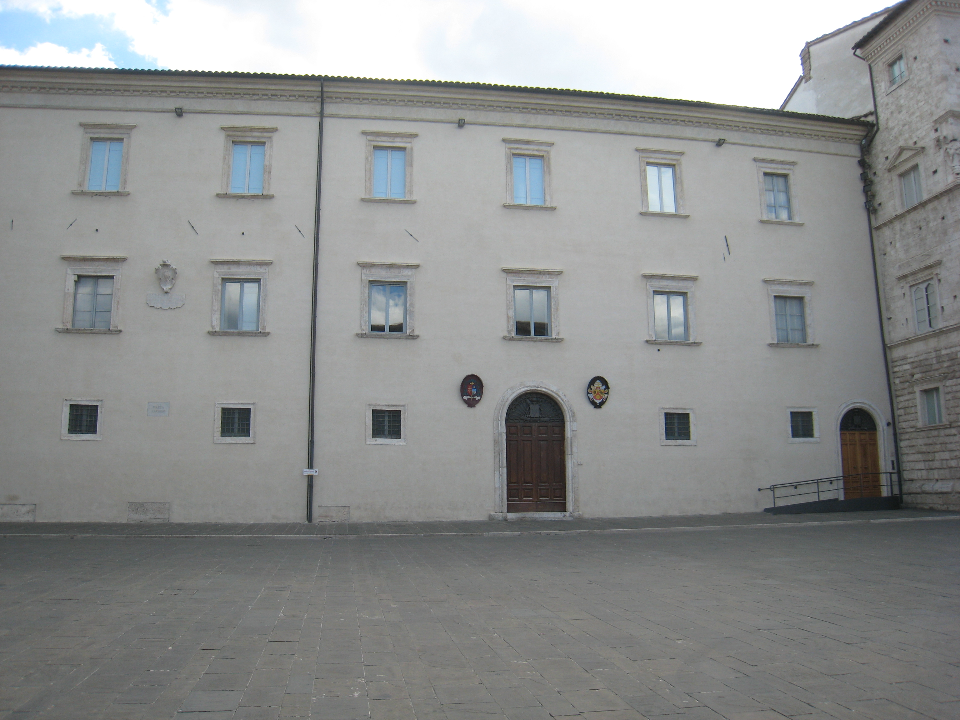 Ascoli Piceno - Bishop's Palace